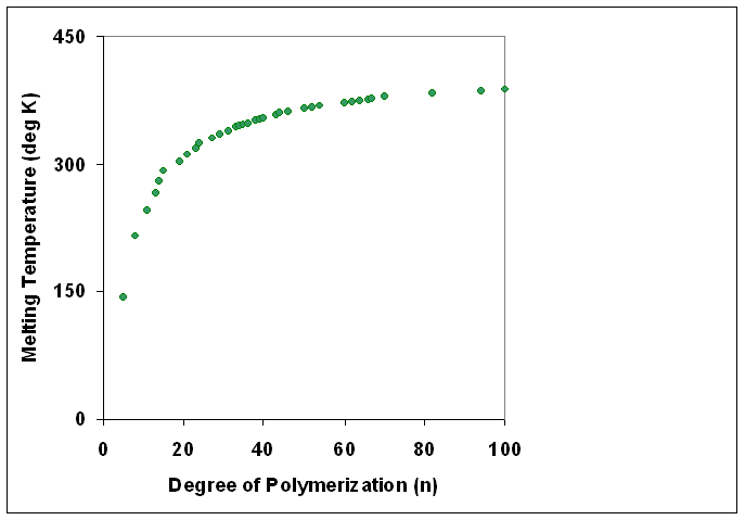 DP vs. melting point - original graphic using raw data contained in Flory, P.J. and Vrij, A. J. Am. Chem. Soc.; 1963; 85(22) pp3548-3553